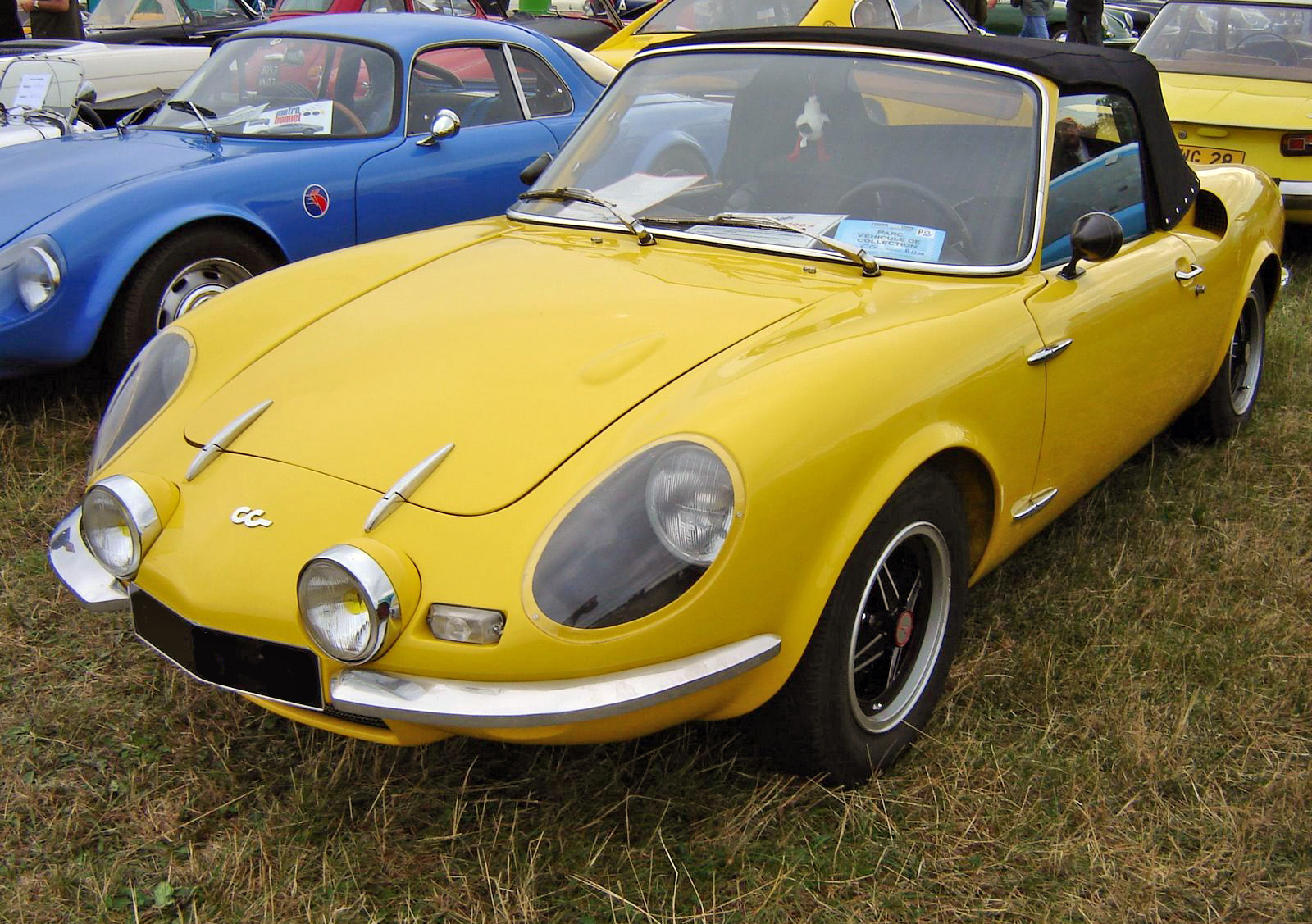 CG 1200S Spider at the Autodrome de Linas-Montlhéry Montlhéry 2009.